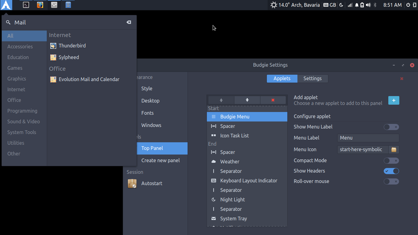 Screenshot of Budgie Desktop Environment